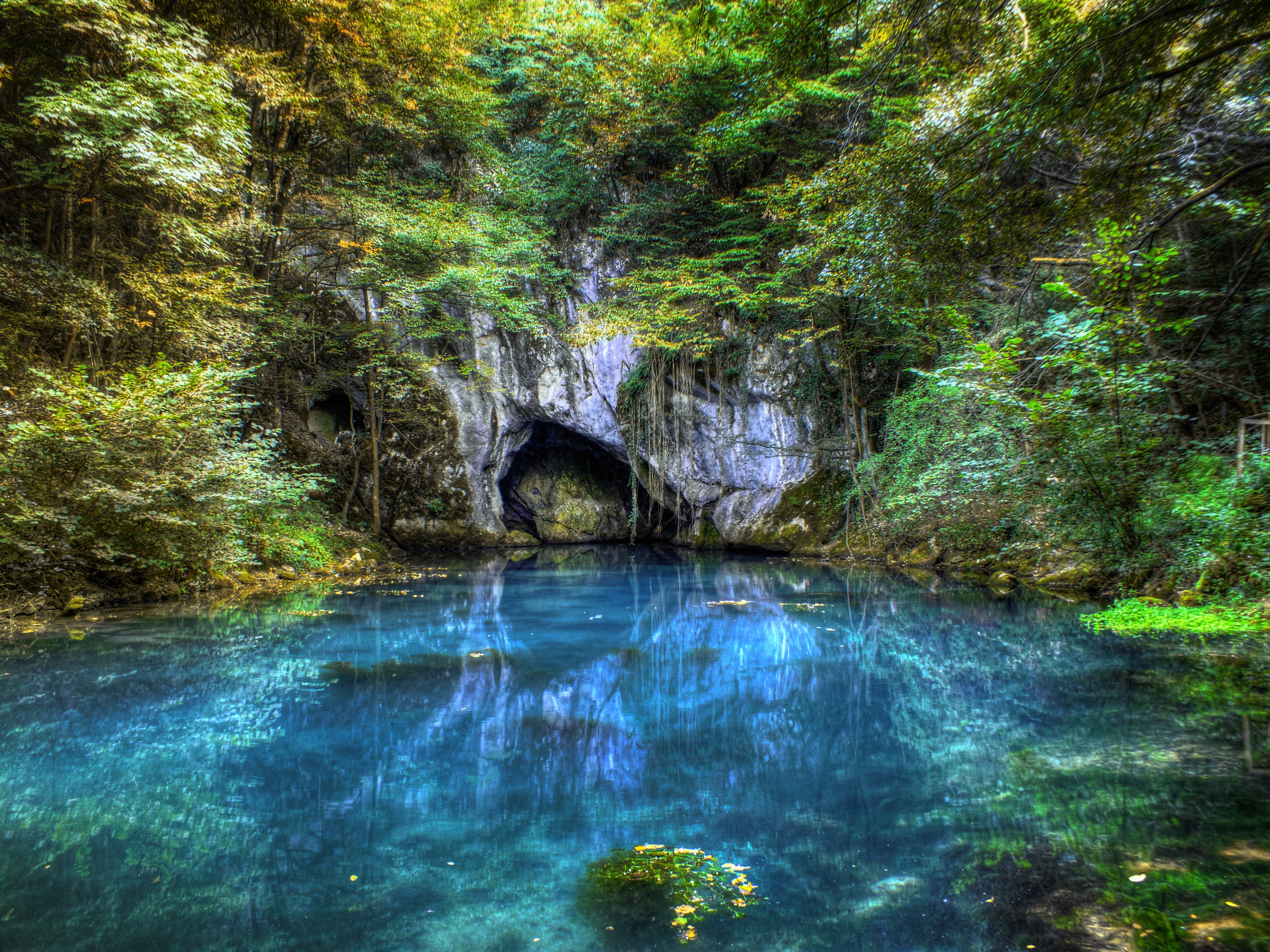 Krupajsko Vrelo,Eastern Serbia